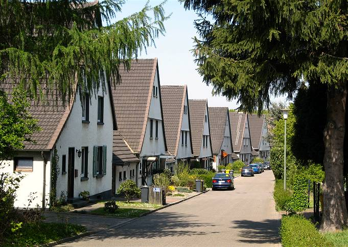 Bochum, Workers Settlement "Dahlhauser Heide"